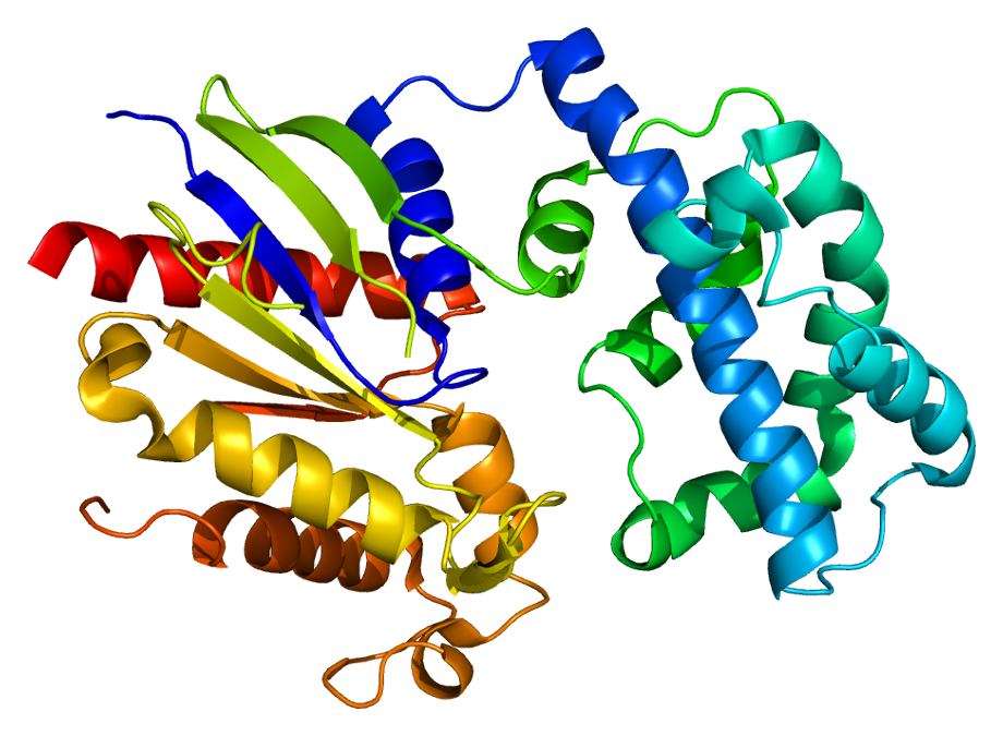 Structure of the GNA13 protein. Based on PyMOL rendering of PDB 1zcb.